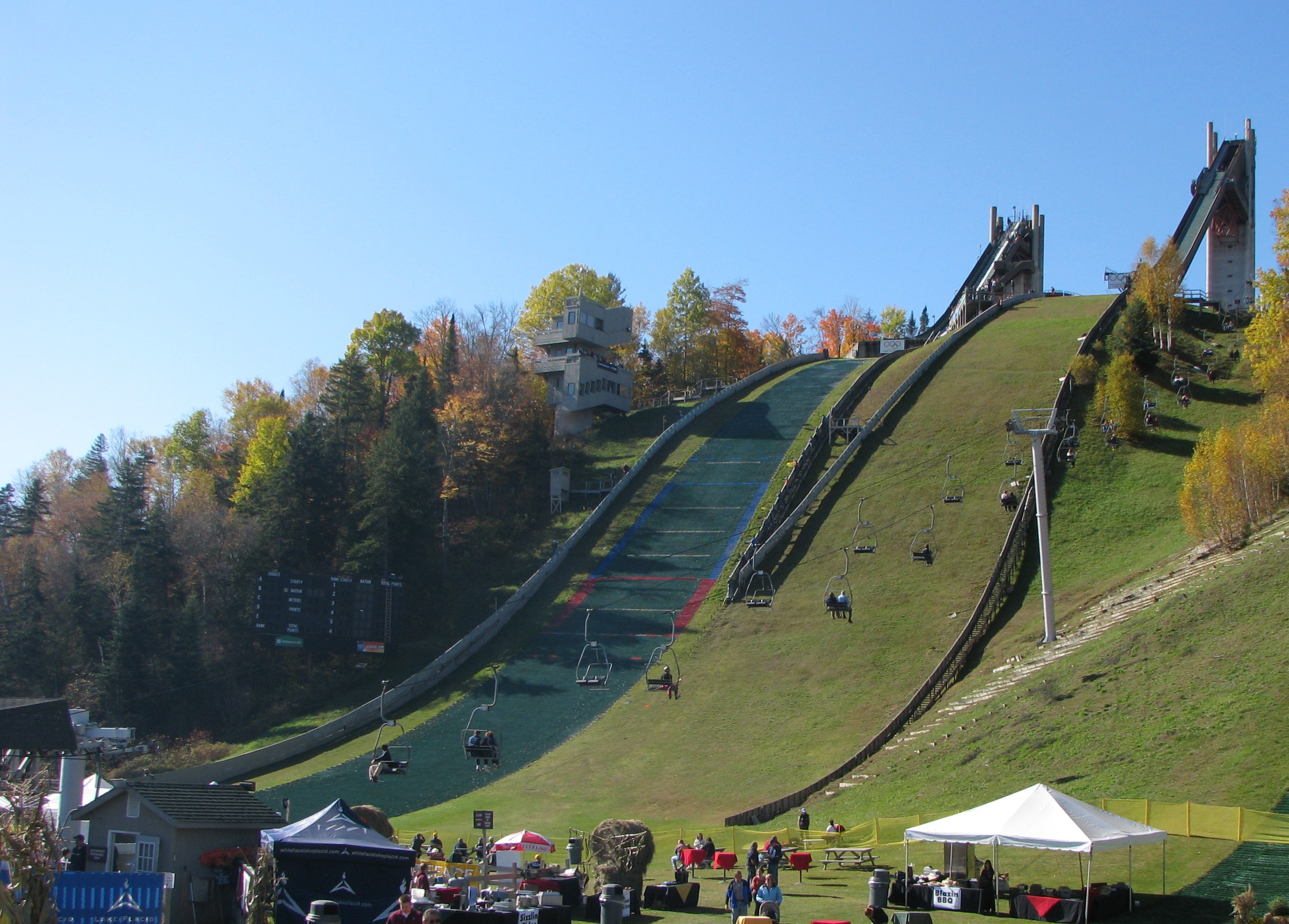 Lake Placid Olympic Ski Jumping Complex from below